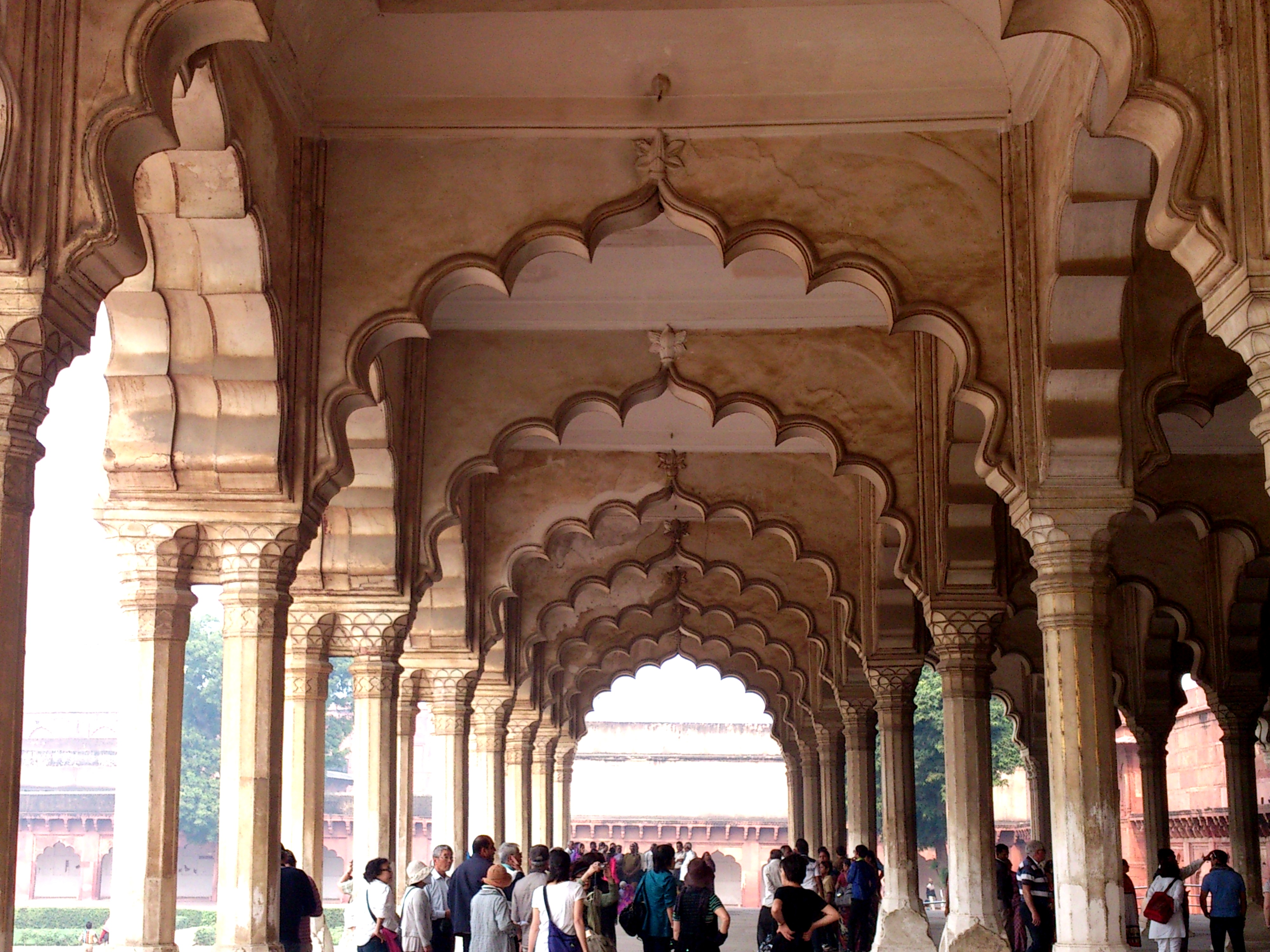 This Palace was built by mughal King Shah Jahan . The Hall Of Public Audience.